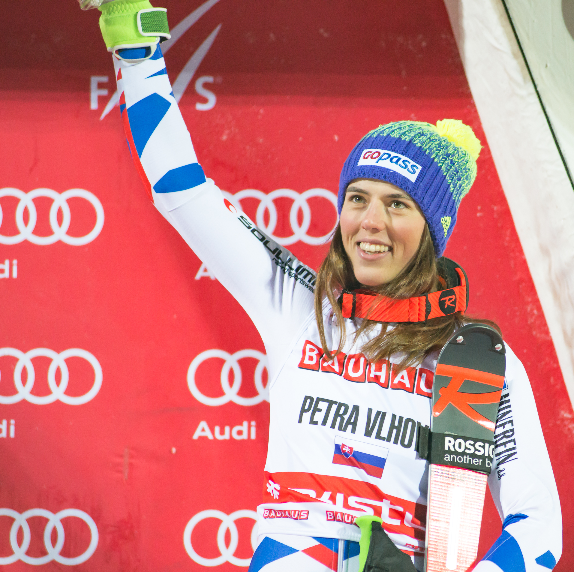 Second place, Petra Vlhova Photo by Roland Osbeck